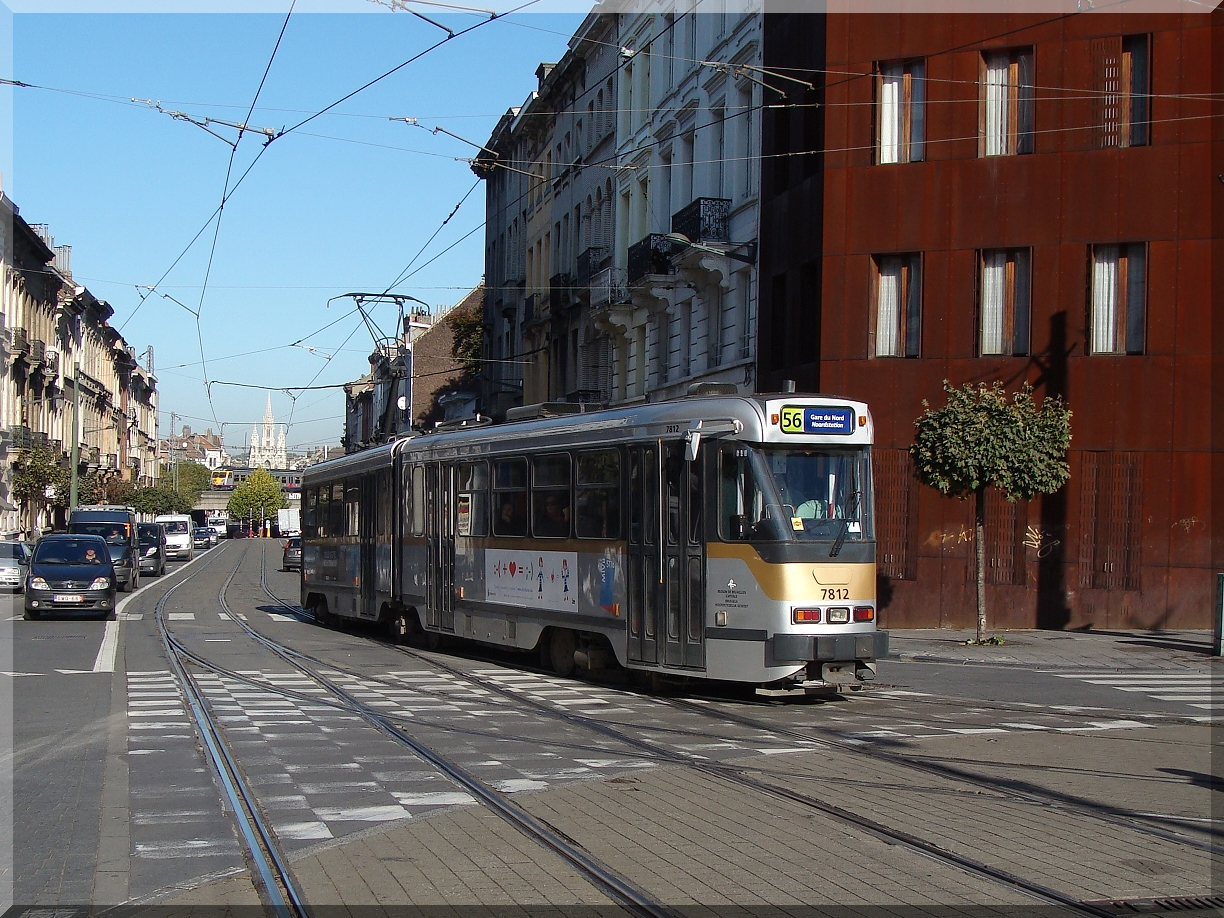 Motor coach 7812 on the line 56 towards the North Station of Brussels.